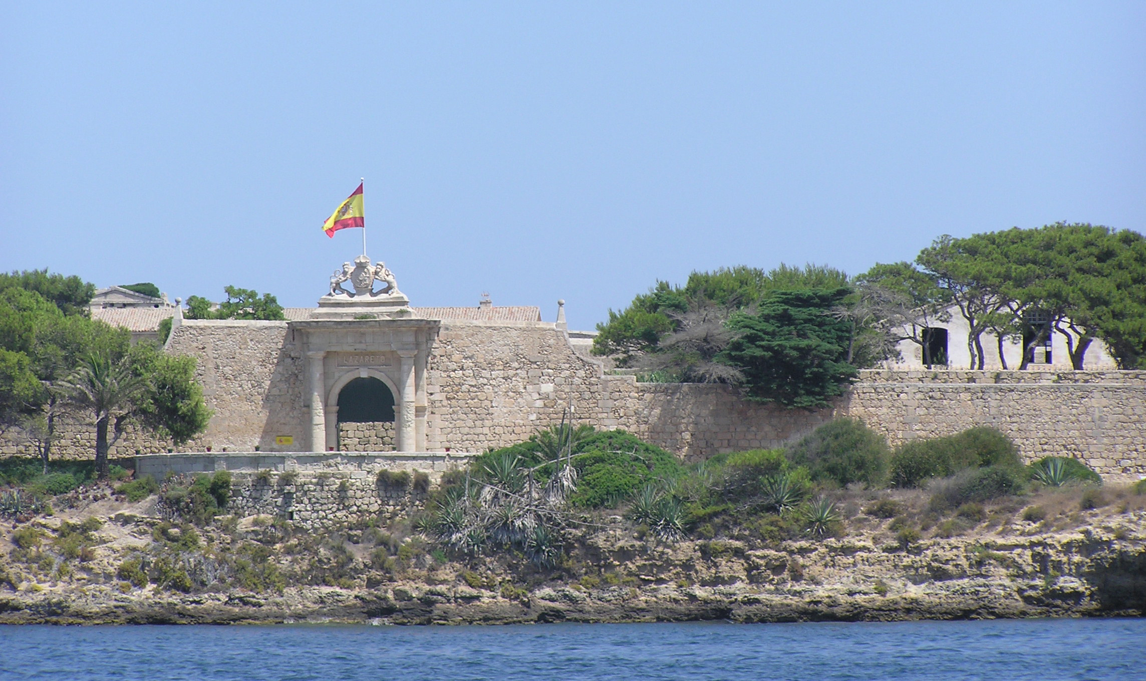 Lazareto Island, Port of Maó, Menorca